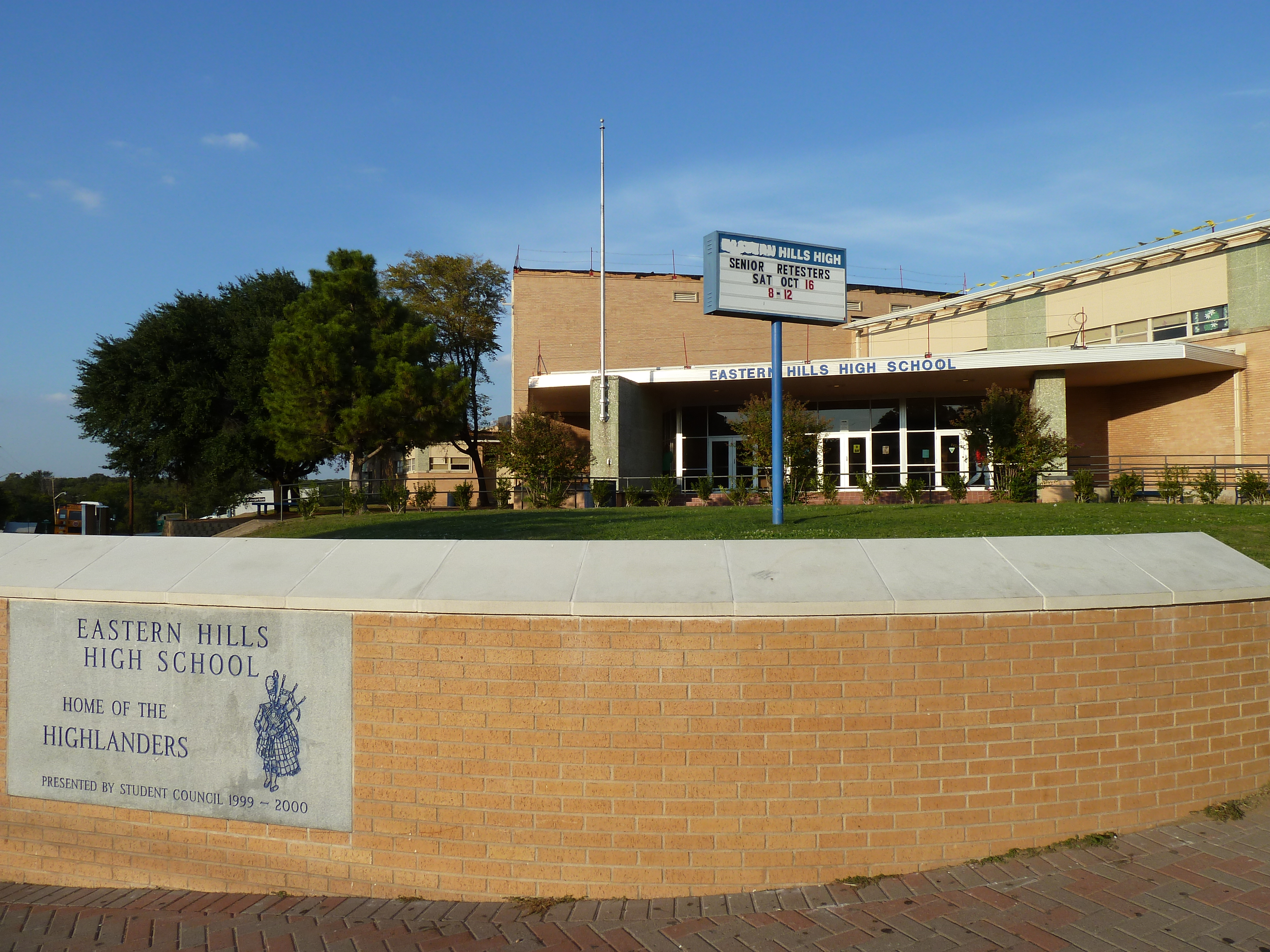 The Eastern Hills High School in 2010 from the front side. The picture shows the main entrance.